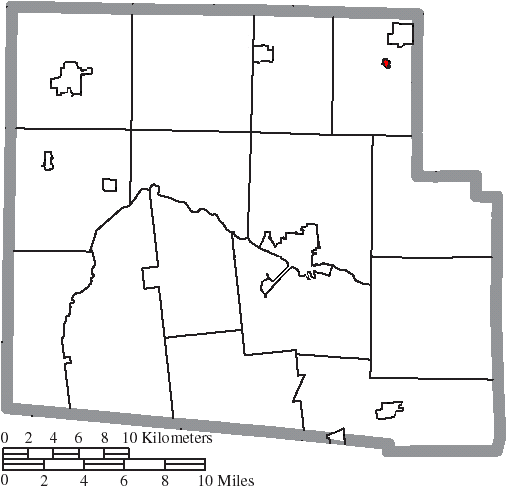 Map of the municipal and township boundaries of Hardin County, Ohio, United States, as of the 2000 census, with the location of the village of Patterson highlighted. Township borders are shown only in unincorporated areas in order to differentiate incorporated and unincorporated areas more clearly.